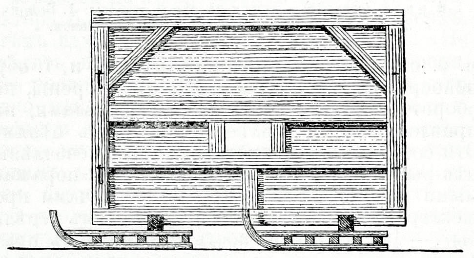 Gulyay-gorod, also guliai-gorod, (Russian: Гуля́й-го́род, literally: "wandering town"), was a mobile fortification used by the Russian army between the 15th and the 17th centuries.